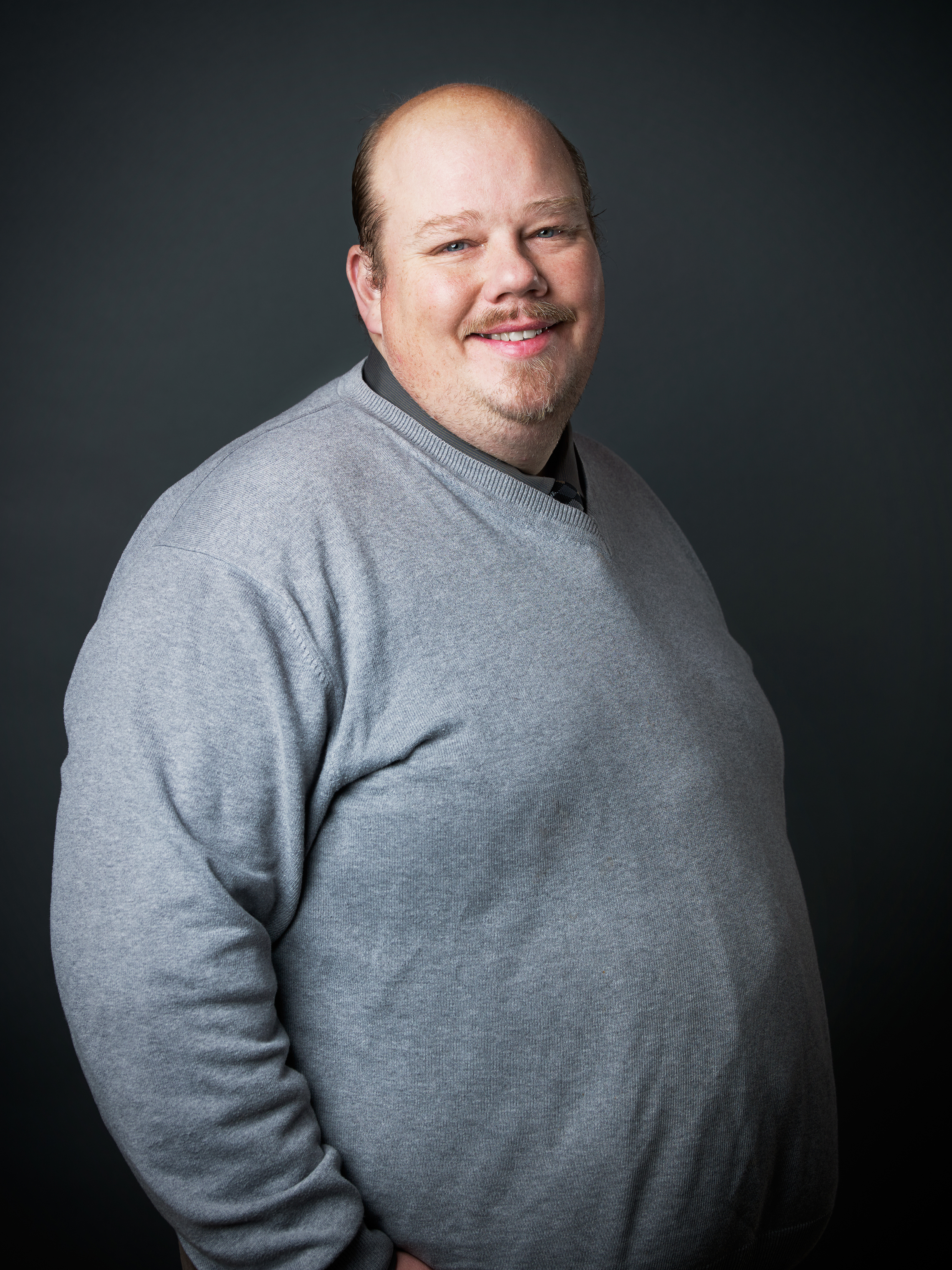 Swedish actor and comedian Linus Eklund Adolphson